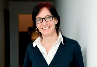 Petra Elser, German translator